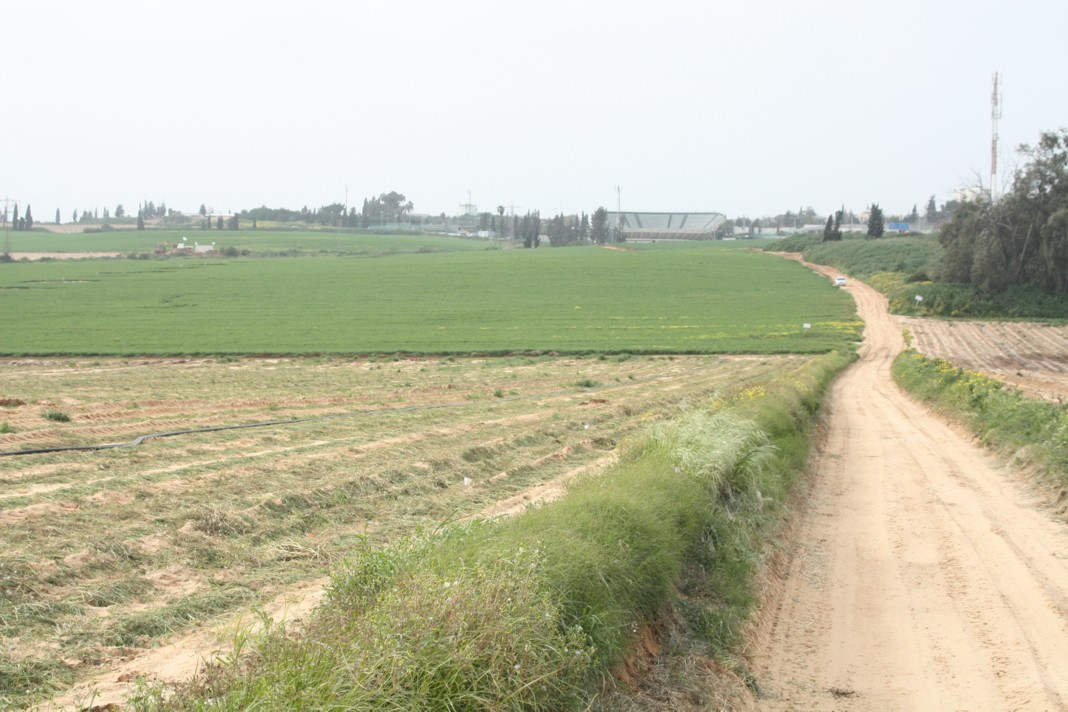 Carrot Fields, Ramat Hasharon